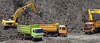 Sarana Karya